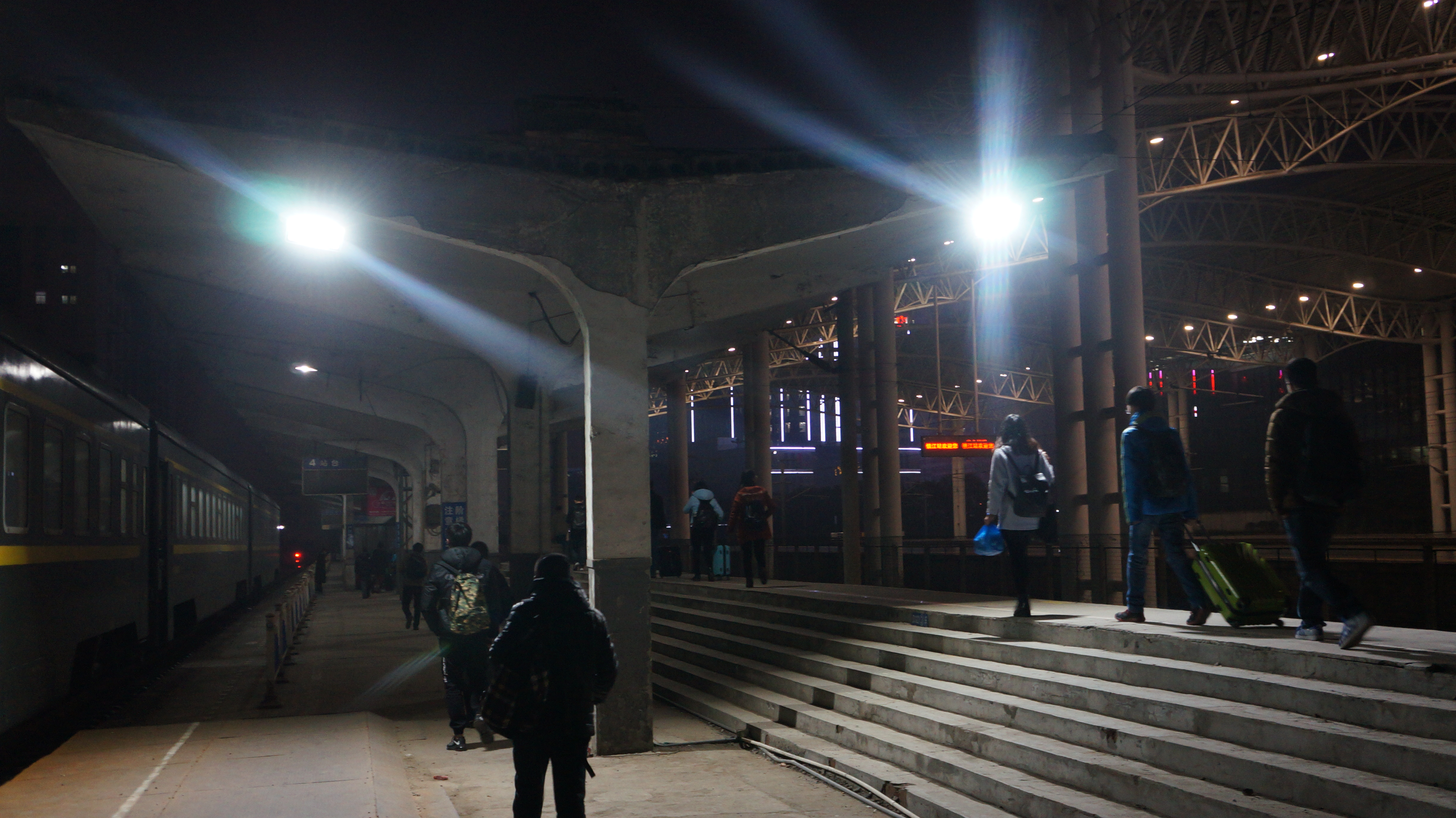 Platform 4,5 of Zhenjiang Railway Station, with two kinds of heights of platforms